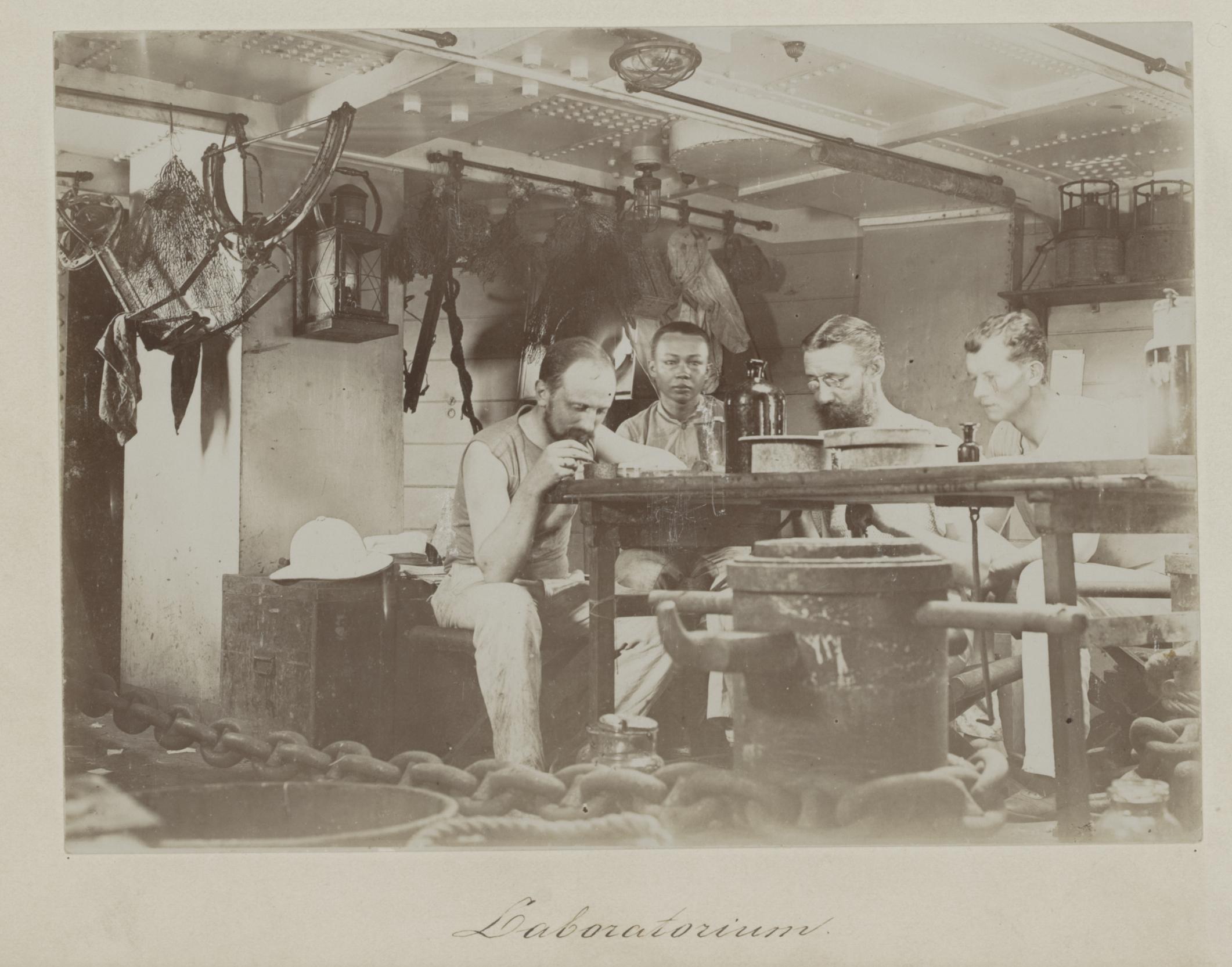 1899-09-16. Siboga expedition to the Dutch East Indies. Expedition led by Max Wilhelm Carl Weber. In this photo, four members of the expedition's scientific staff are portrayed. From left to right: H.F. Nierstrasz, J.W. Huysmans, Prof. Max Weber and Dr. J. Versluys.